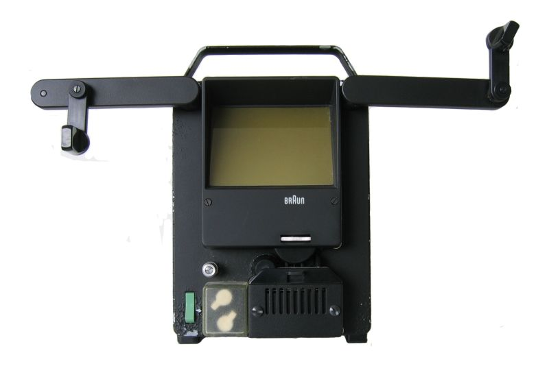 Braun SB 1 super 8 film viewer